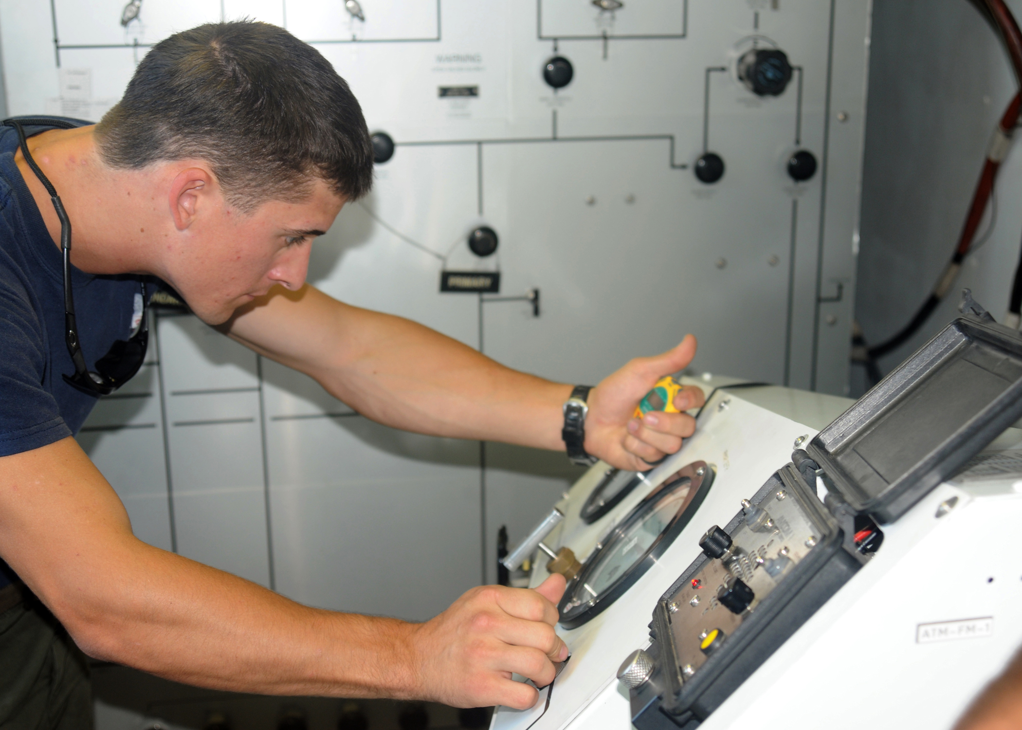 PERSIAN GULF (Nov. 17, 2009) Navy Diver 2nd Class Ryan Arnold monitors the decompression chamber during a simulated medical emergency on the flight deck of the Royal Navy fleet auxiliary service landing ship dock RFA Lyme Bay (L3007) during a training exercise. The exercise is designed to develop a greater understanding of joint maritime operational and war fighting capabilities through the integration of Joint and Combined forces within Commander 5th Fleet operations. (U.S. Navy photo by Mass Communication Specialist 2nd Class Daniel Edgington/Released)